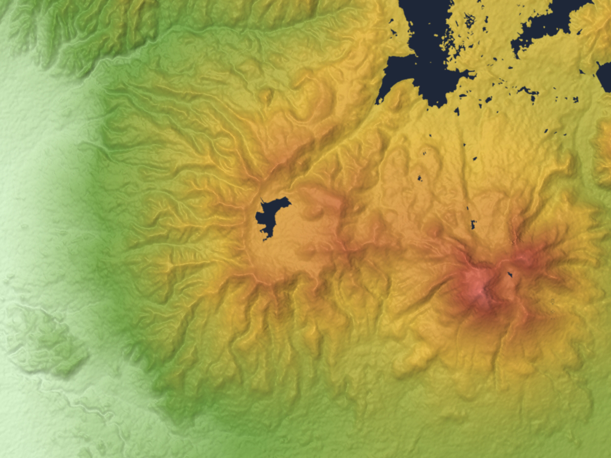 Nekoma Volcano (left) and Bandai Volcano (right) in Fukushima Prefecture, Honshu, Japan.